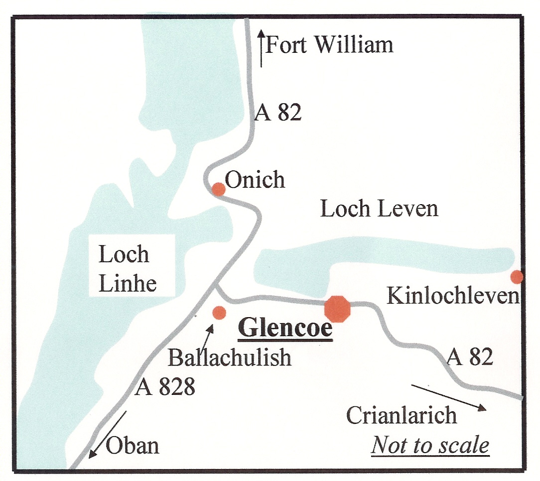 Map of Glencoe, Highland, Scotland.